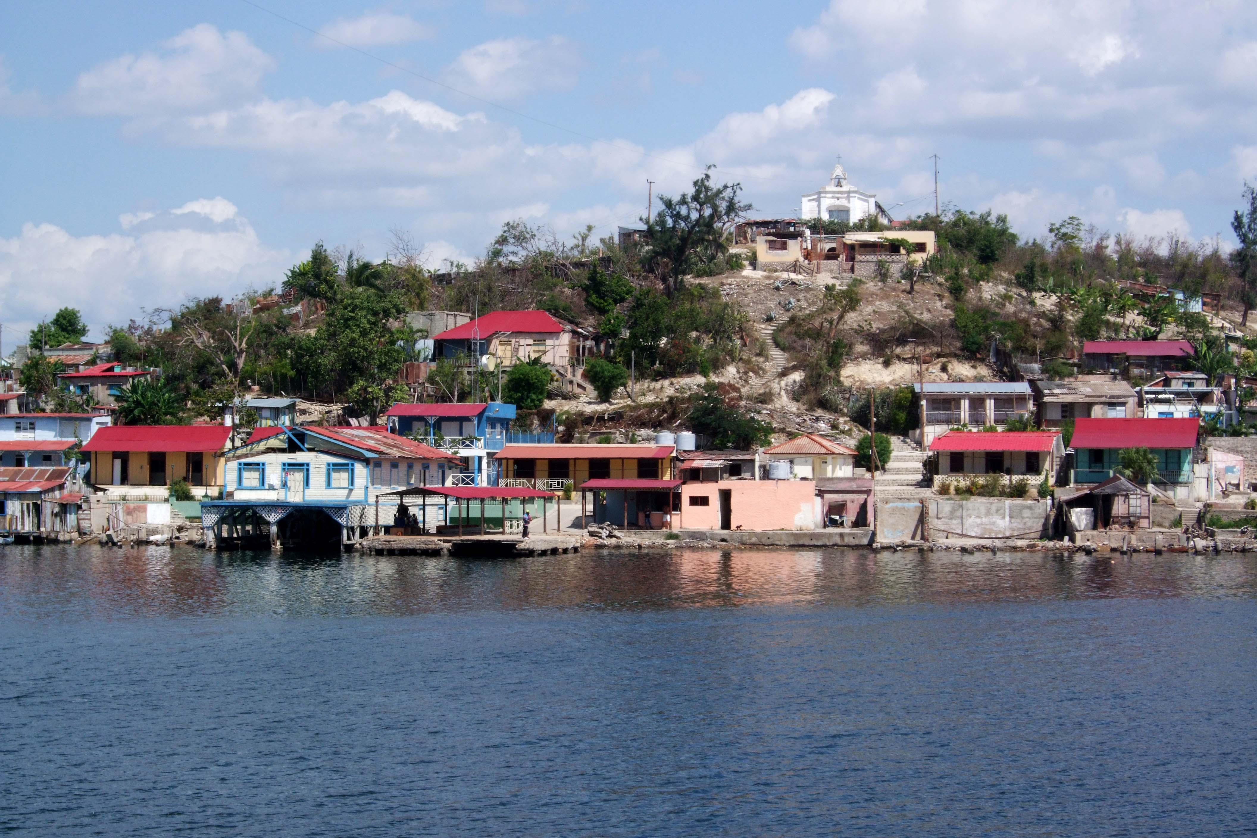 Island of Cayo Granma, Cuba.